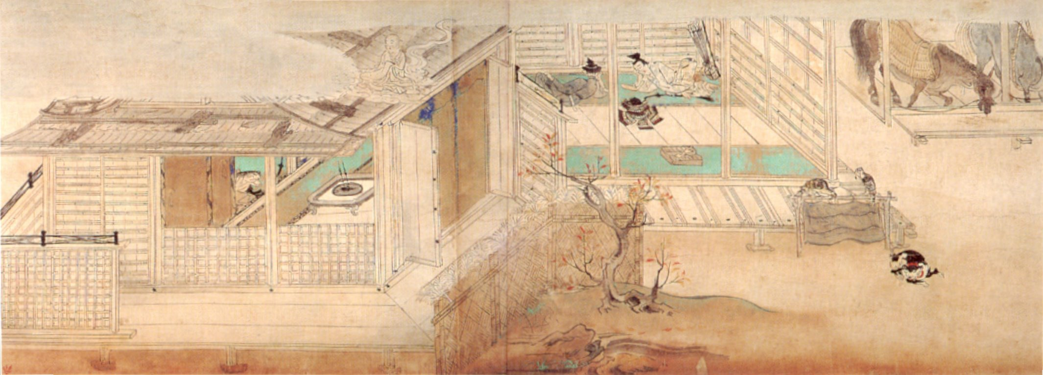 Detail of Kōbō Daishi gyōjō emaki (Events in the Life of Kōbō Daishi [Kūkai]), late 13th or early 14th century Japan, Honolulu Academy of Arts